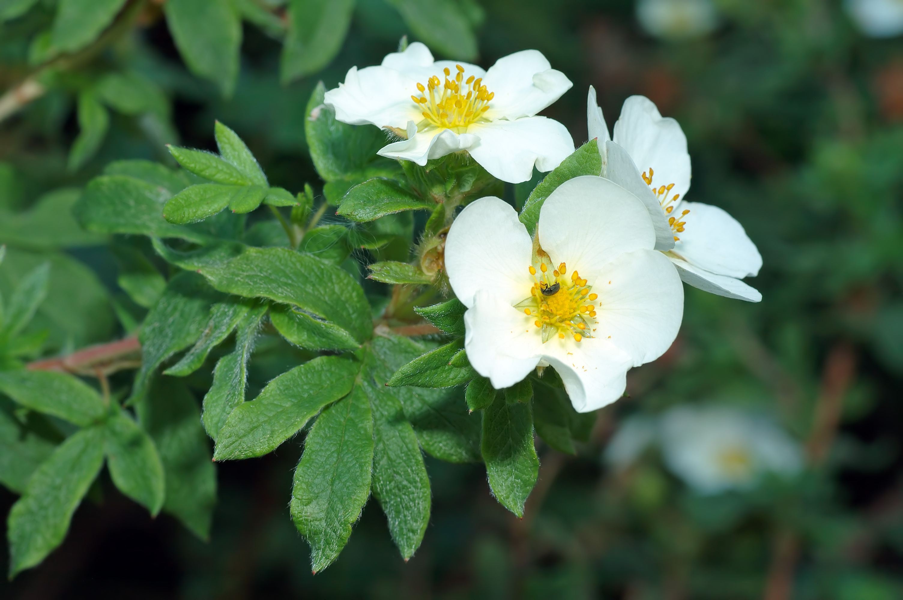 This image shows Dasiphora davurica (syn. Potentilla glabra) plant. Thanks to Franz Xaver for identifying this species.